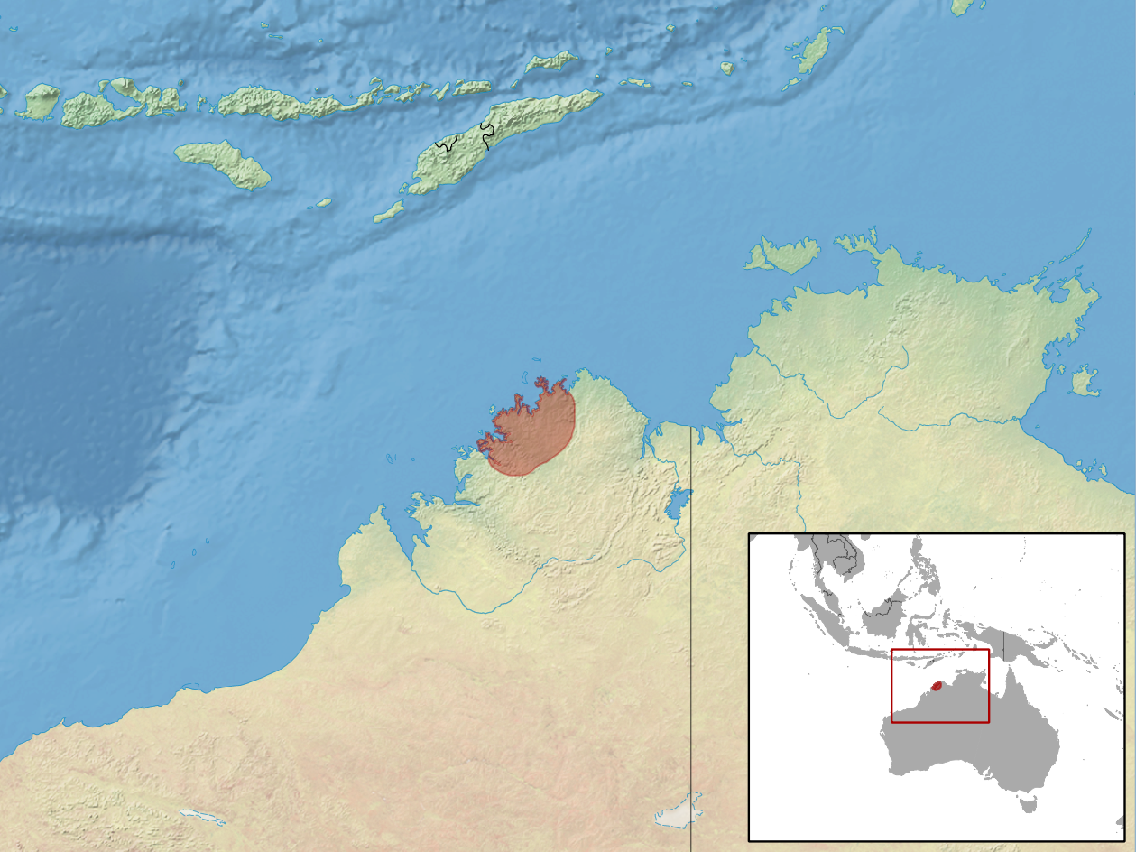 geographic distribution of Eremiascincus brongersmai